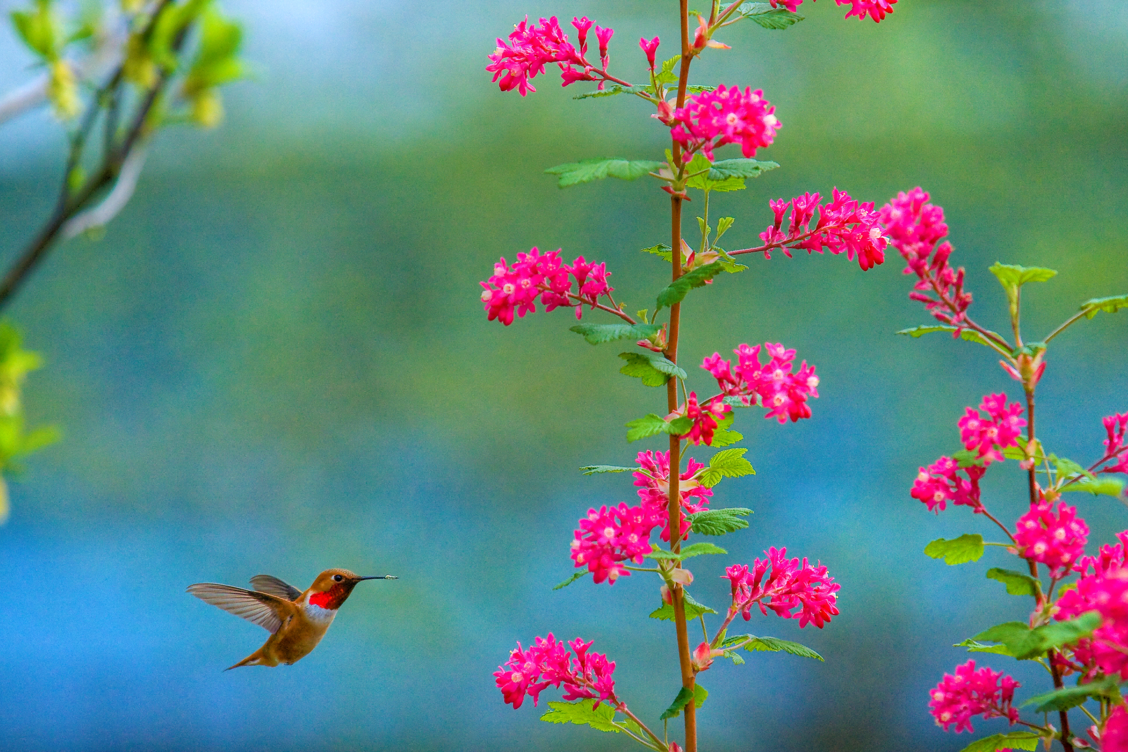 Selasphorus rufus visiting Ribes sanguineum flowers for nectar. Vancouver, Canada.